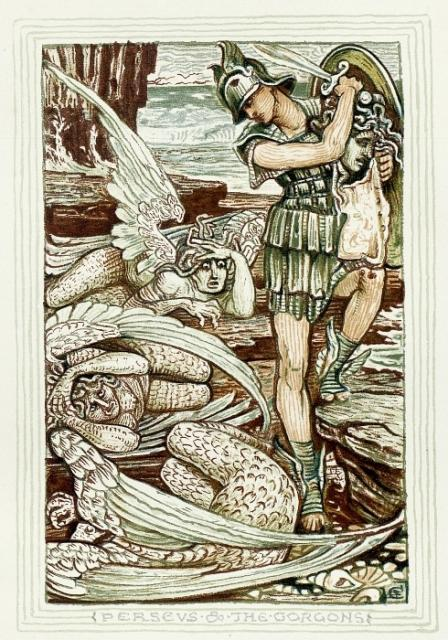 (Removed after reusableart request.)